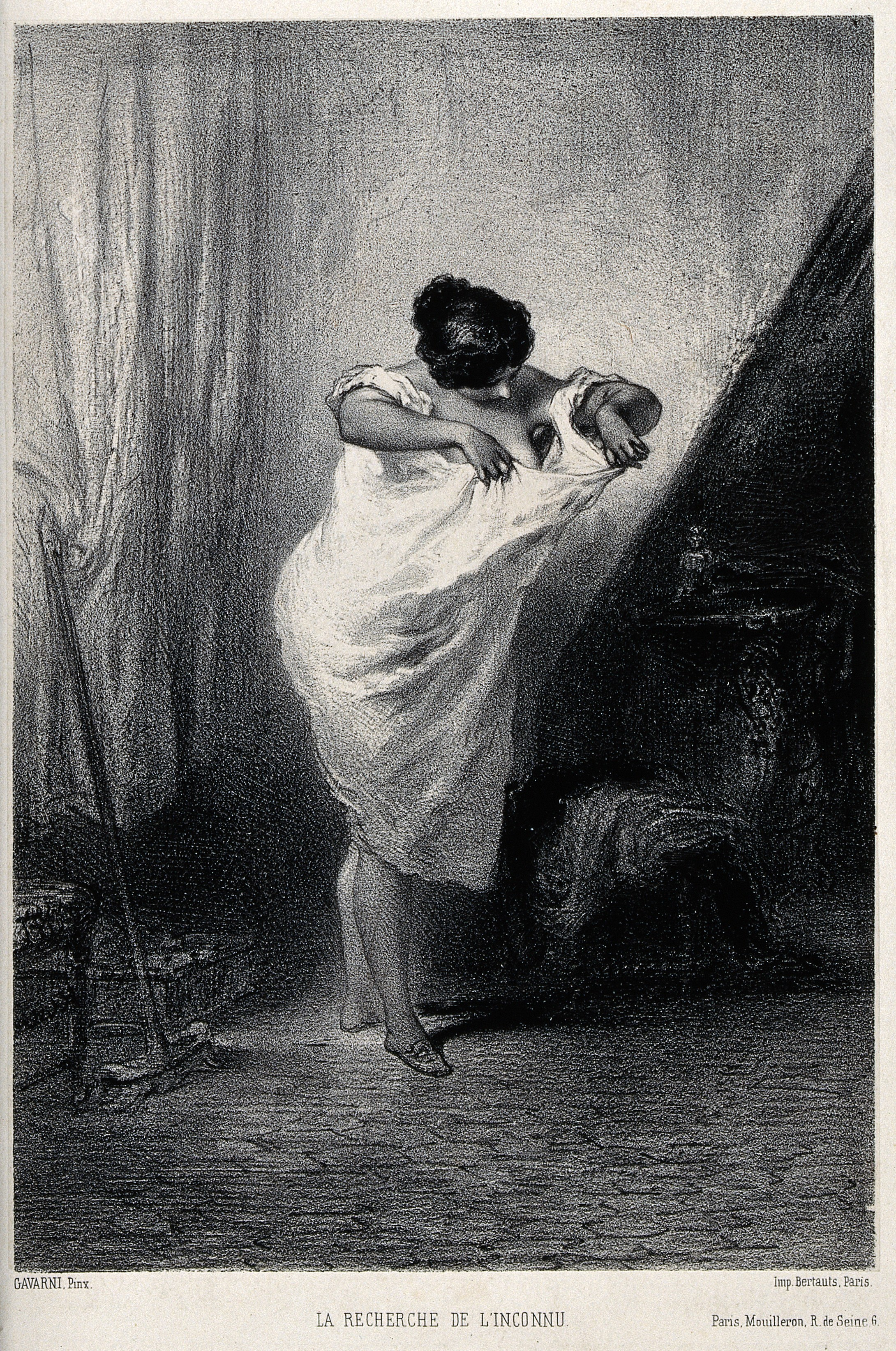 A woman looking down her night gown whilst searching for fleas. Lithograph after Gavarni. Iconographic Collections Keywords: ic; Hippolyte-Guillaume-Sulpice Gavarni